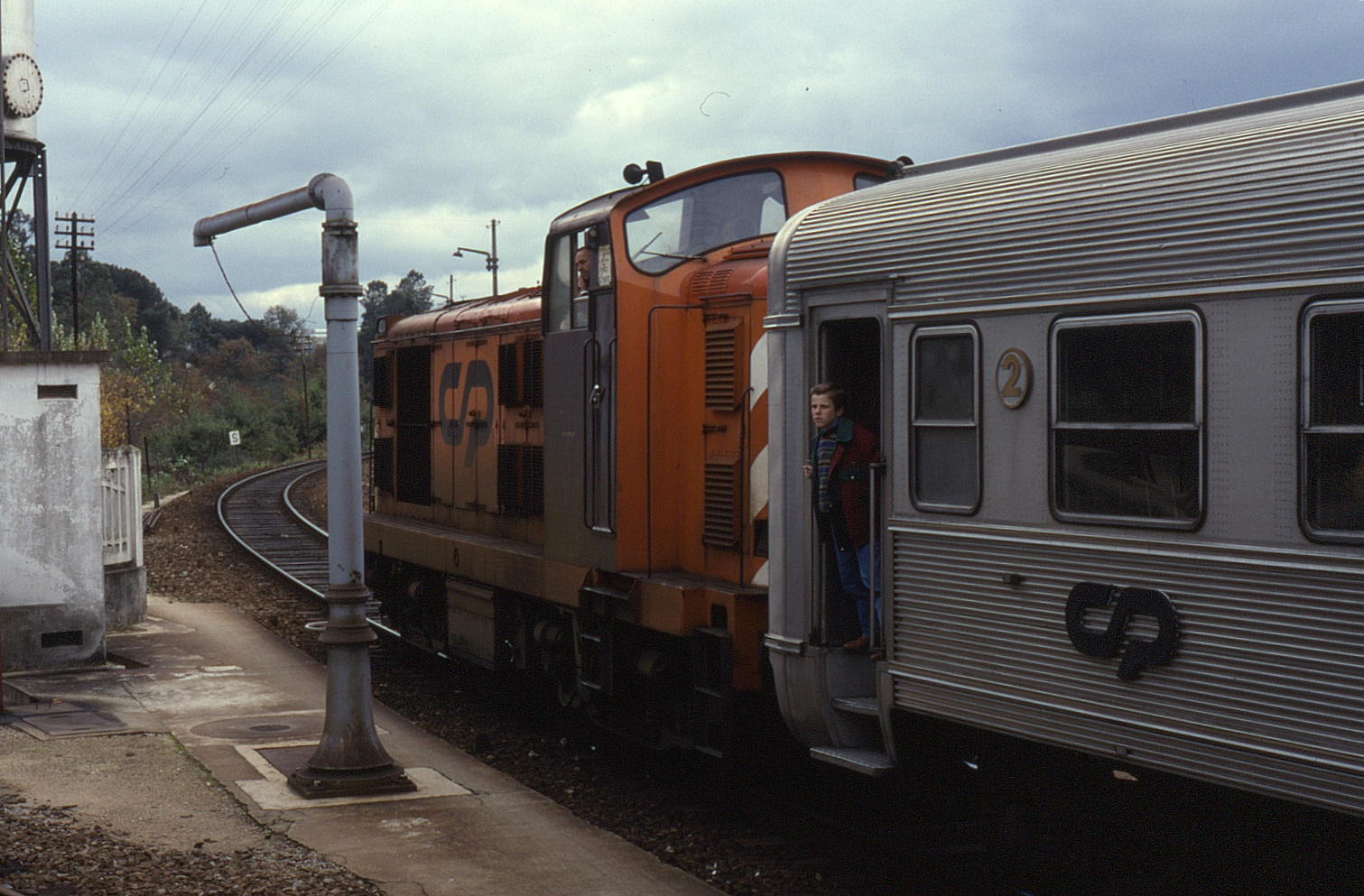 1404 is seen ready to depart Livração on a Douro valley service